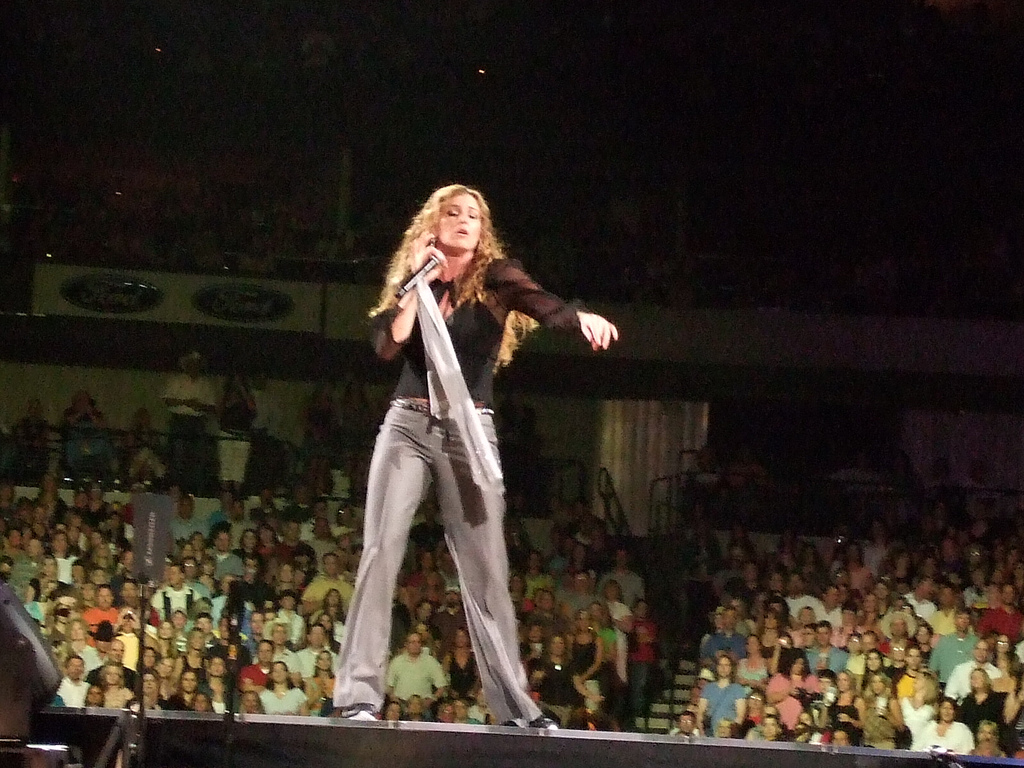 Faith Hill performing on the Soul 2 Soul II Tour